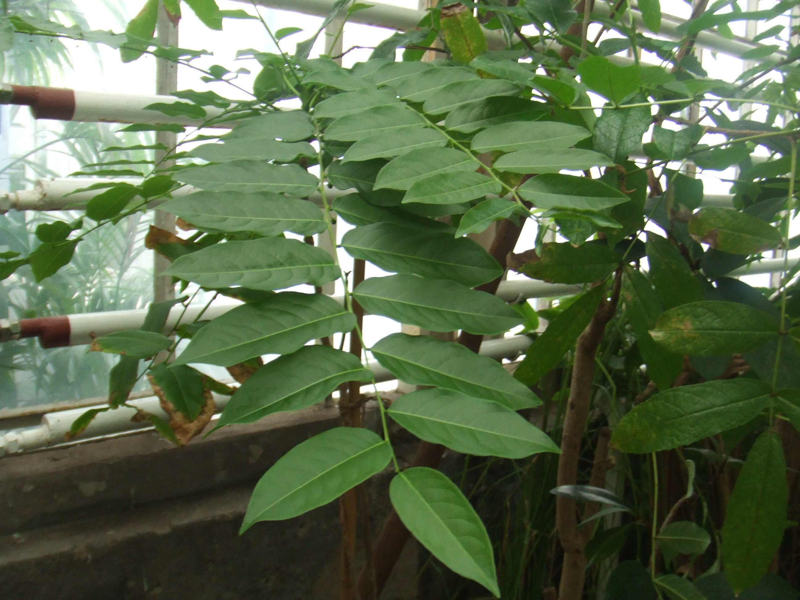 Phyllanthus acidus, picture taken at the Botanische tuin TU Delft in Delft, The Netherlands